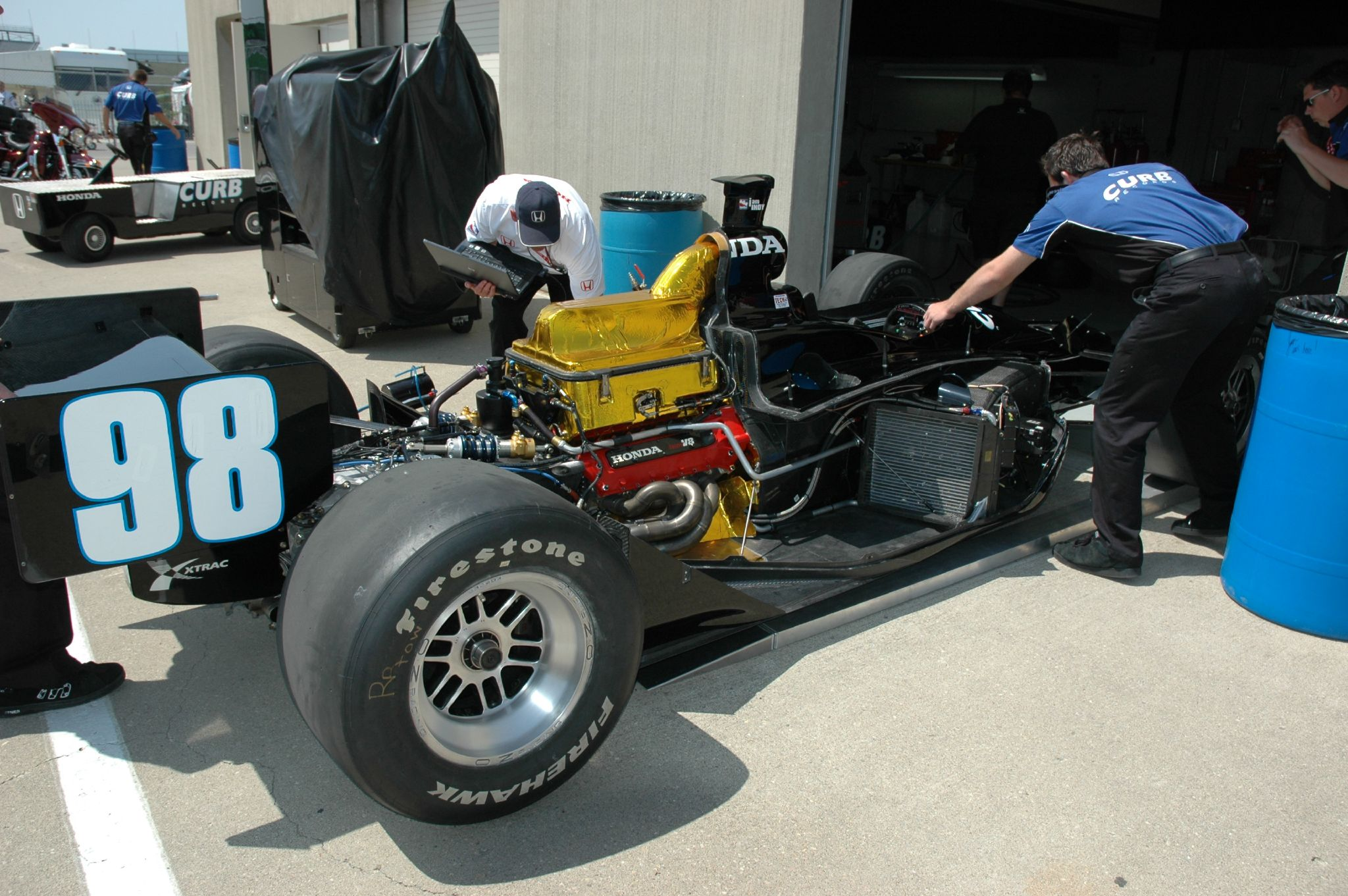 Mechanics working on the car for Alex Barron (driver) in the garage area at a practice session for the en:2007 Indianapolis 500DSC_0005